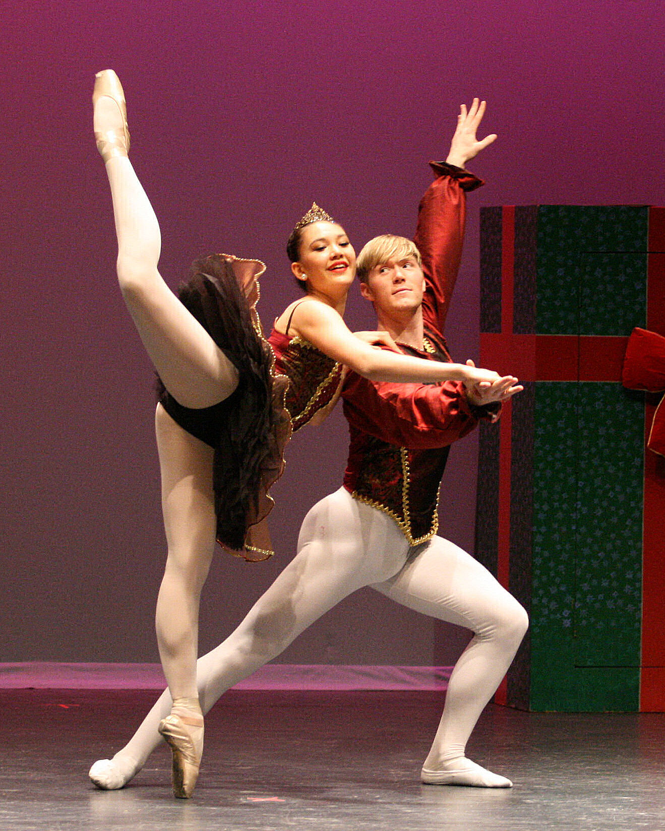 Daria and Josh perform the adagio of The Nutcracker grand pas de deux.